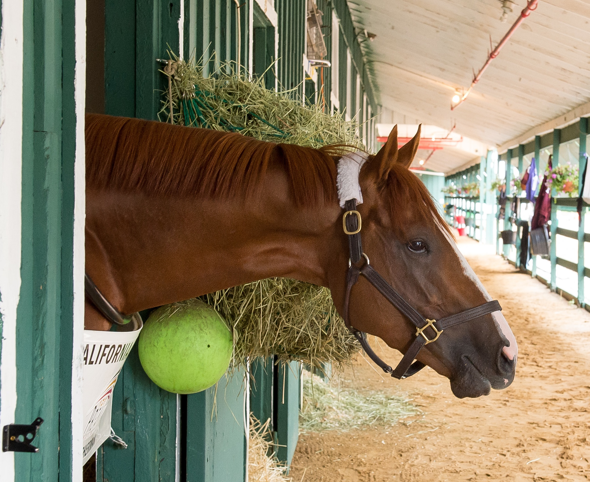 Maryland Governor Martin O'Malley Meeting California Chrome Governor Tours Preakness Stakes Barn. by Jay Baker at Baltimore, MD.